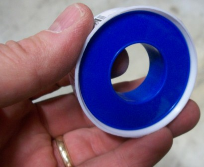 When connecting the threads of two metal pipes, which screw together, or a a plumbing nut that seals a high-pressure hose, teflon tape is wound around the threading in the direction which the screw will take -- three times. This helps seal the connection and prevents water from leaking out through the threads. Source: here entitled "Swapping out a bathroom sink" (handyman project) Note the words "public domain" note at the top of the article. Further questions, ask me (tom sulcer) on my Wikipedia talk page here.